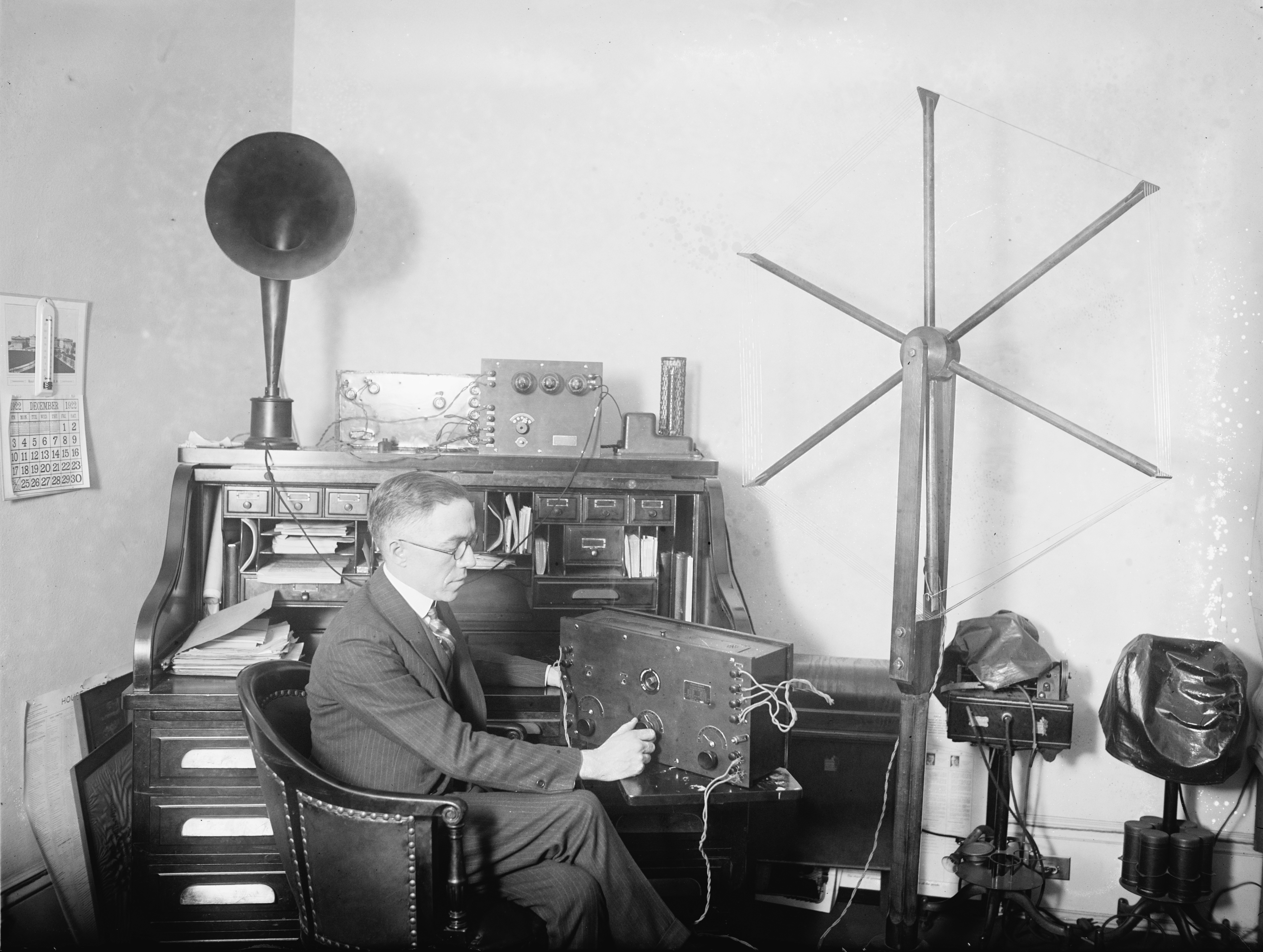 Rep. Vincent Morrison Brennan, Republican of Michigan, listening in on the proceedings of the US House of Representatives with a radio receiving set, in 1922. Radio broacasting (of sound) was a new technology that had only been in existence for about 5 years. Brennan advocated radio broadcast of Congress, but failed to get support to allow it at the time. Note: Discussion of image at [1] Scene shows multi-part advanced radio recieving set of the era on and anound desk. On wall at left of photo is a calendar open to December 1922. At lower right of the photo is cylinder phonograph dictation machine equipment.